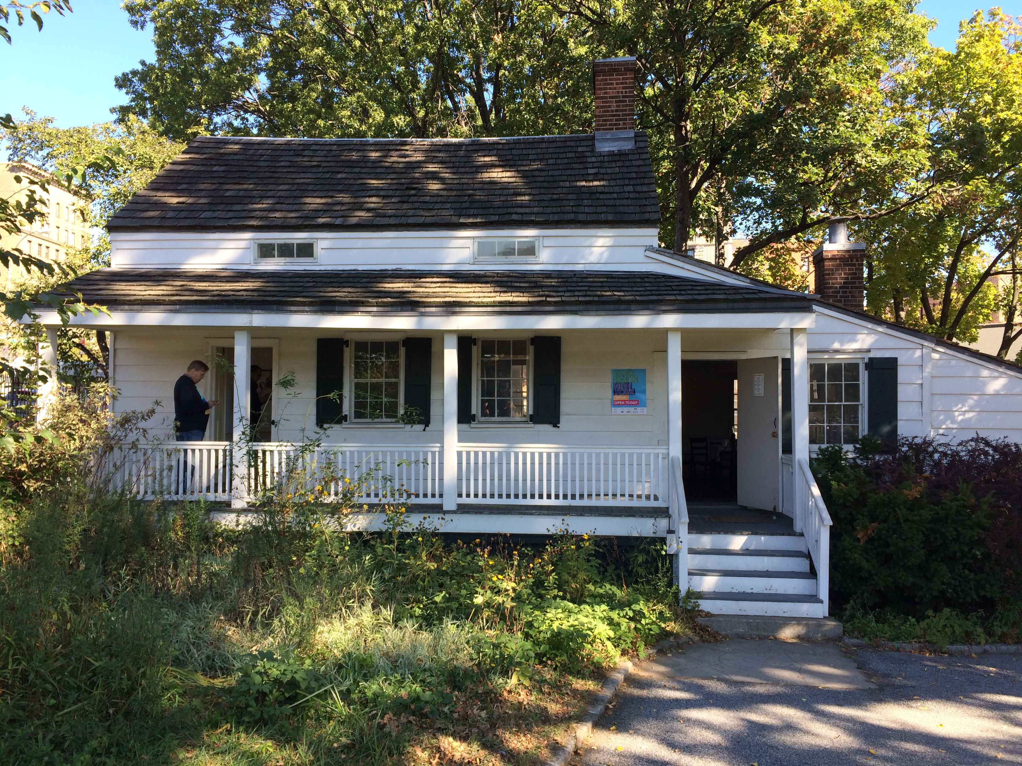 Poe Cottage, Bronx, New York Site: Poe Cottage